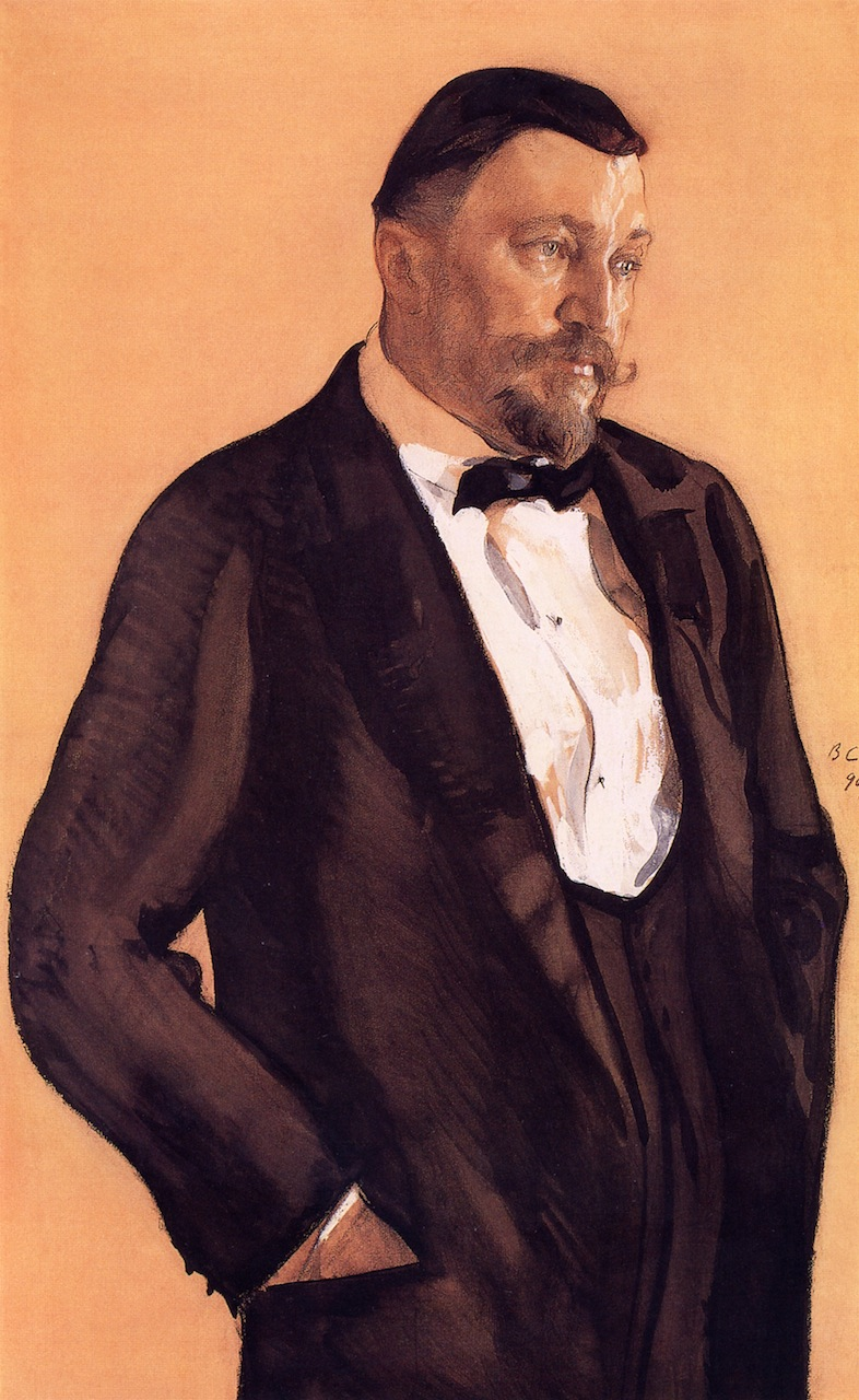 Portrait of Alexei Morozov. 1909. Gouache, pastel, whitewash on paper, mounted on cardboard. The Art Museum of Belarus, Minsk, Belarus. Height: 93.4 cm (36.77 in.), Width: 59.8 cm (23.54 in.)